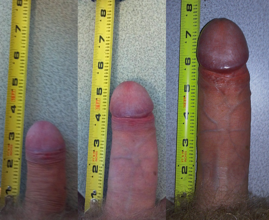 Flaccid penis to erect penis size comparison growth